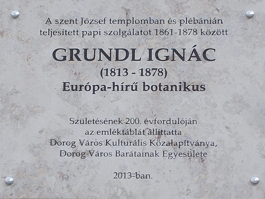 Saint Joseph Roman Catholic parish, plaque. - 4 or 7 Templom Square, Dorog, Komárom-Esztergom County, Hungary.